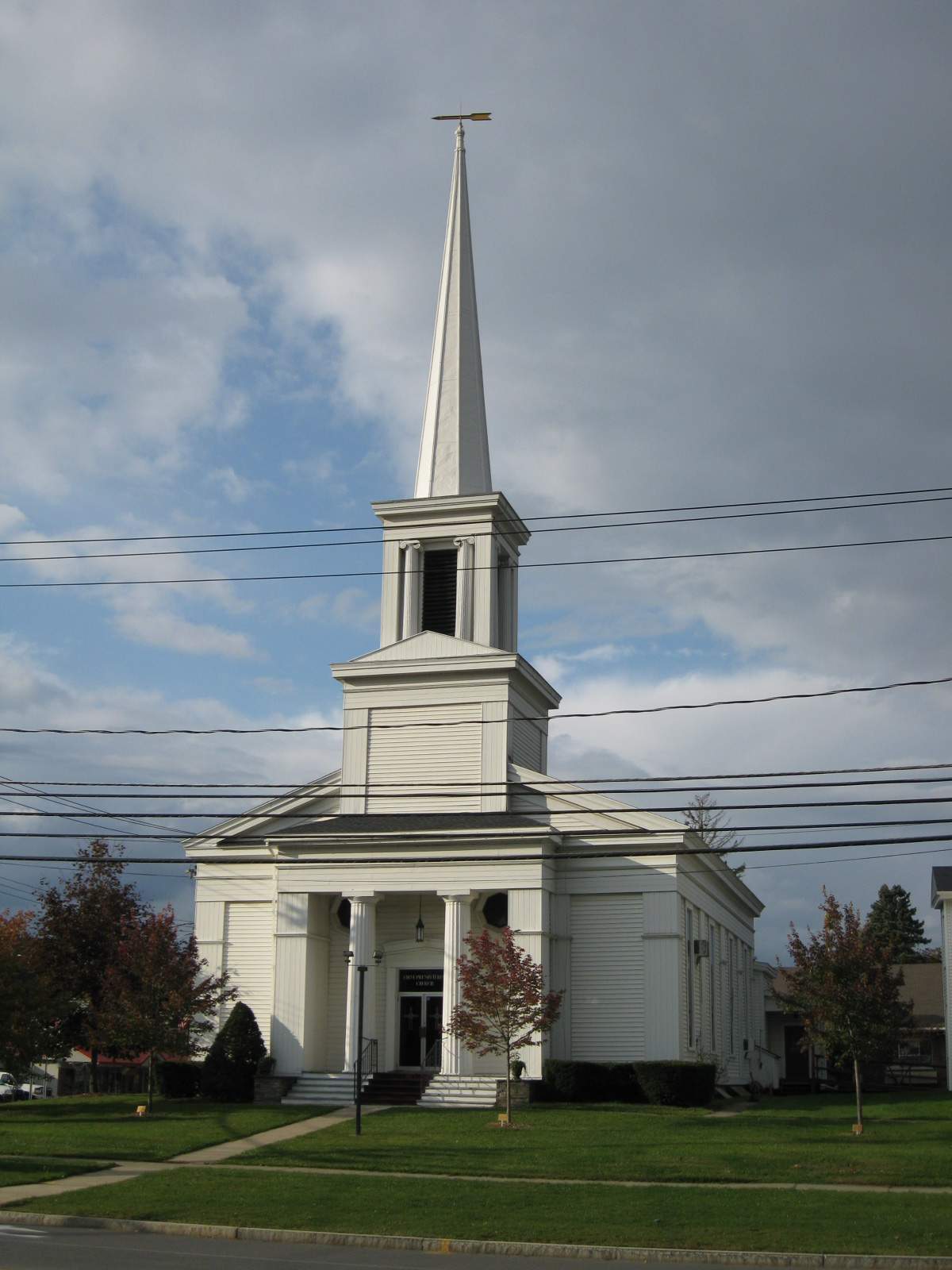 A view from New York State Route 174 of the First Presbyterian Church of Marcellus in Marcellus, New York. This is the current structure built in 1860.